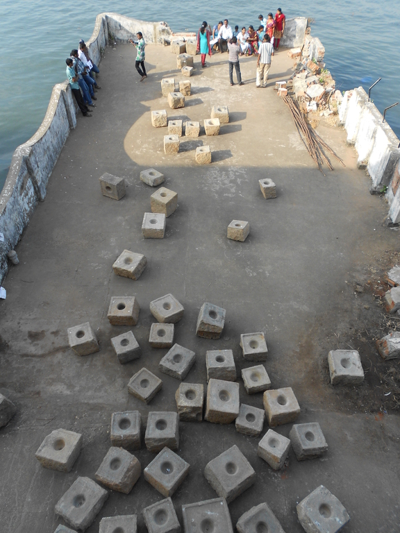 viewers seeing Stop over, an installation by sheela gowda and storz at Kochi-Muziris binalle 2012